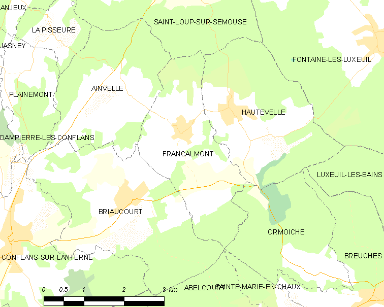 Map of French municipality